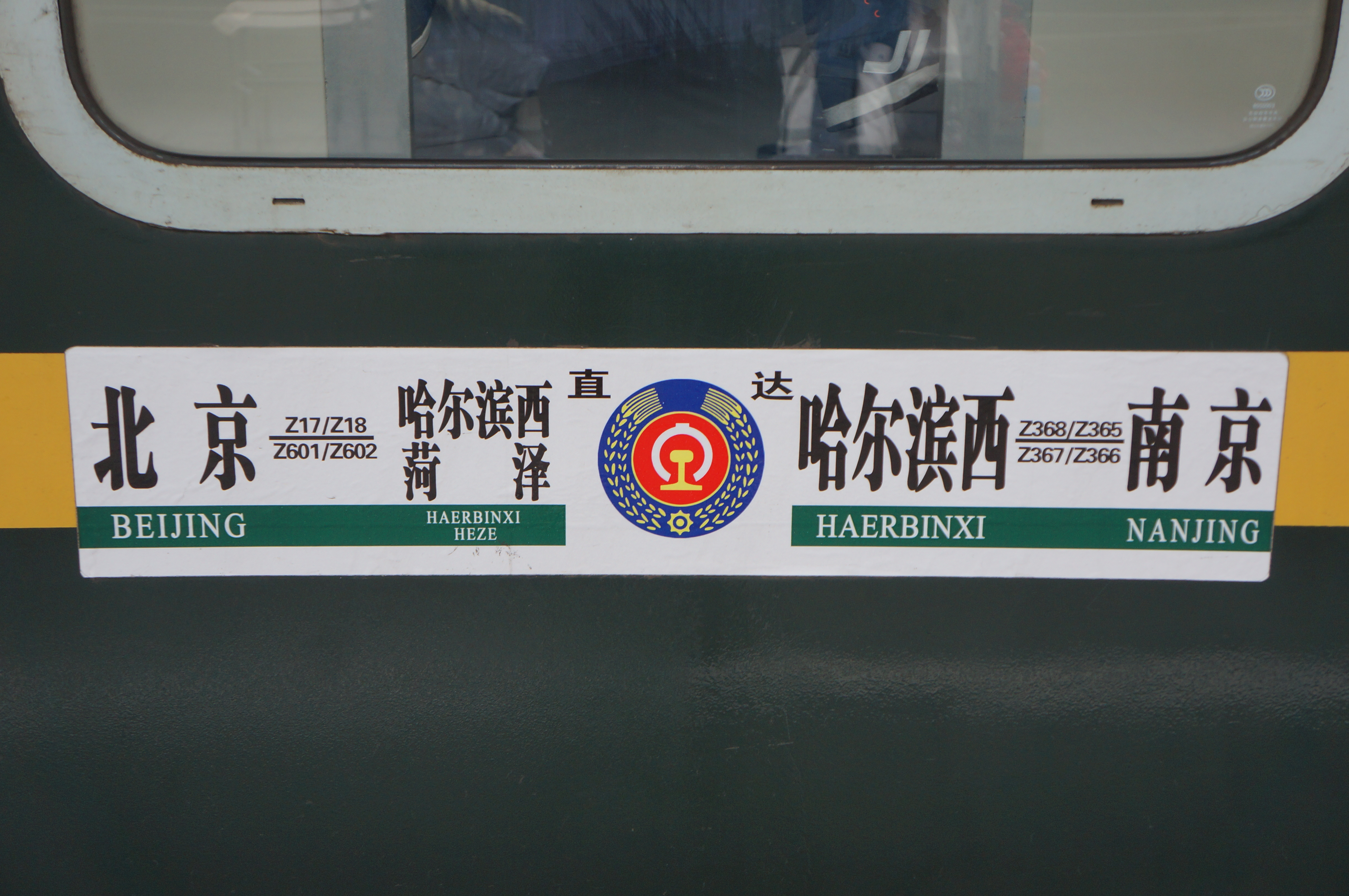 Z17-8 Z365-8 Z601-2 infoboard in 201806